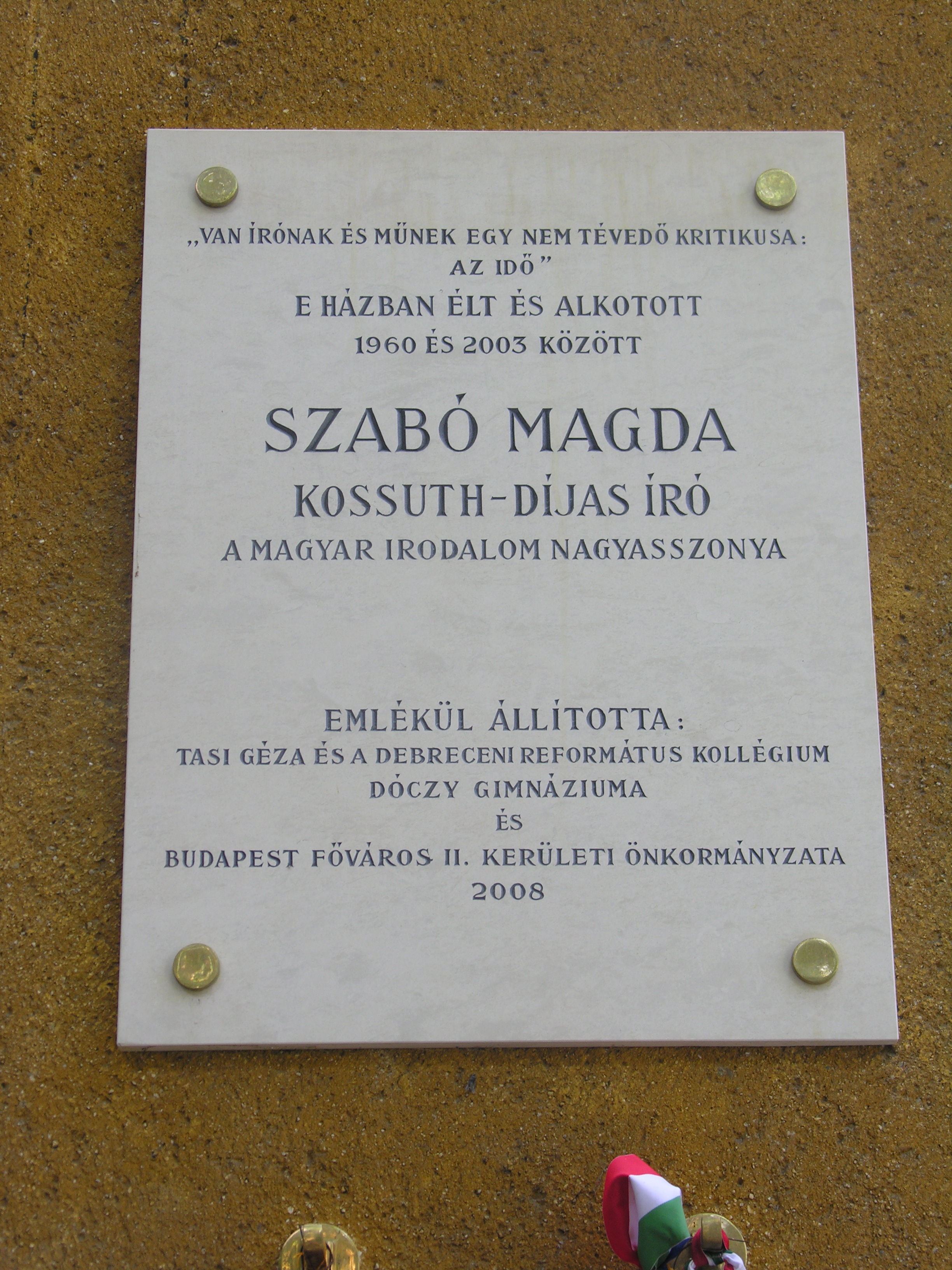 Commemorative plaque of Magda Szabó in Budapest District II, Júlia Street No 3